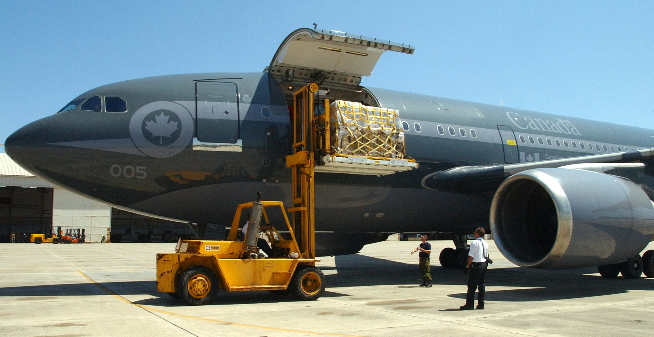 United States Navy personnel unloads Canadian relief supplies from a Canadian transport aircraft in Pensacola, Florida to assist with Hurricane Katrina relief efforts.